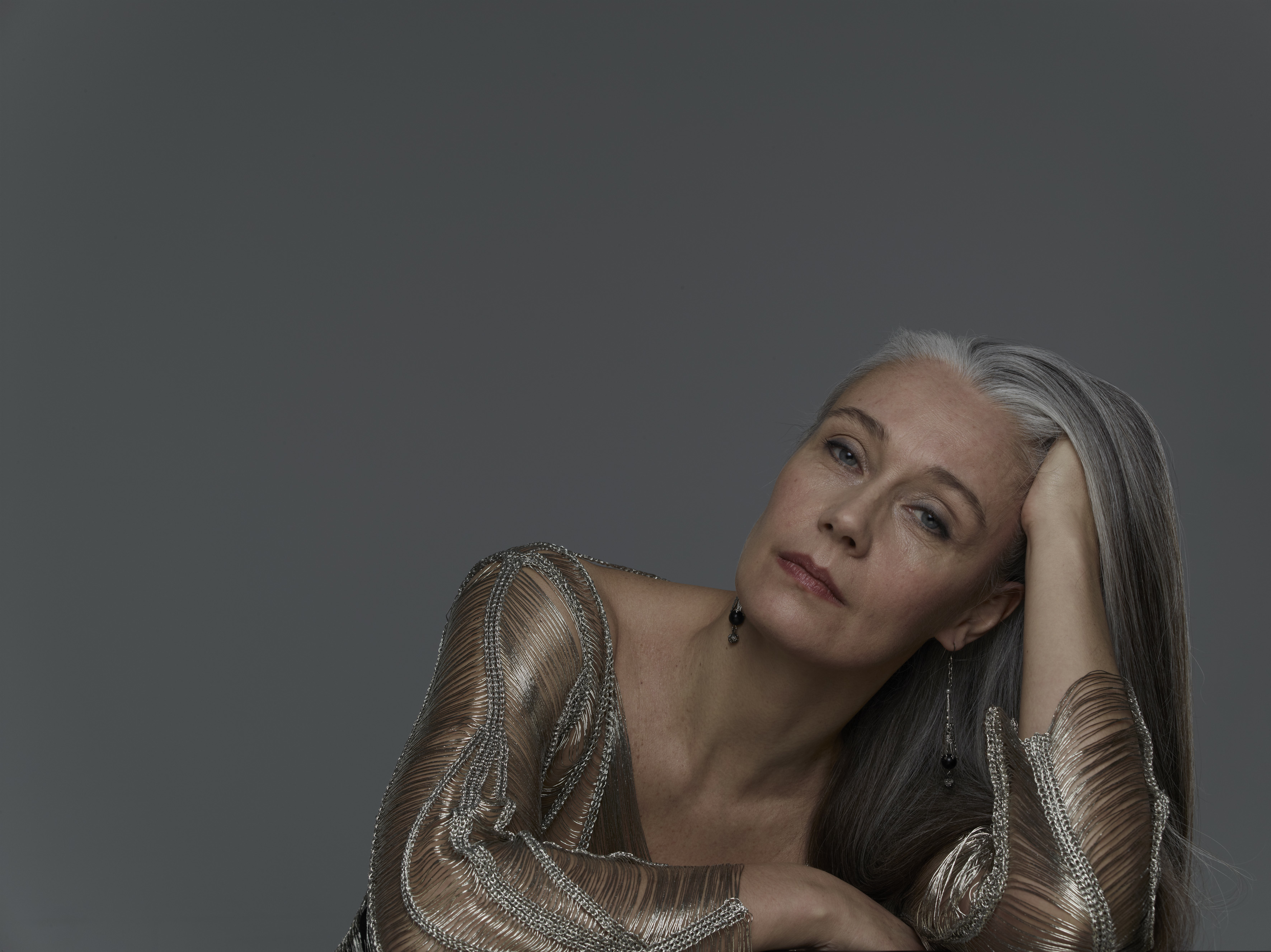 Helen Storey portrait_credit John Ross